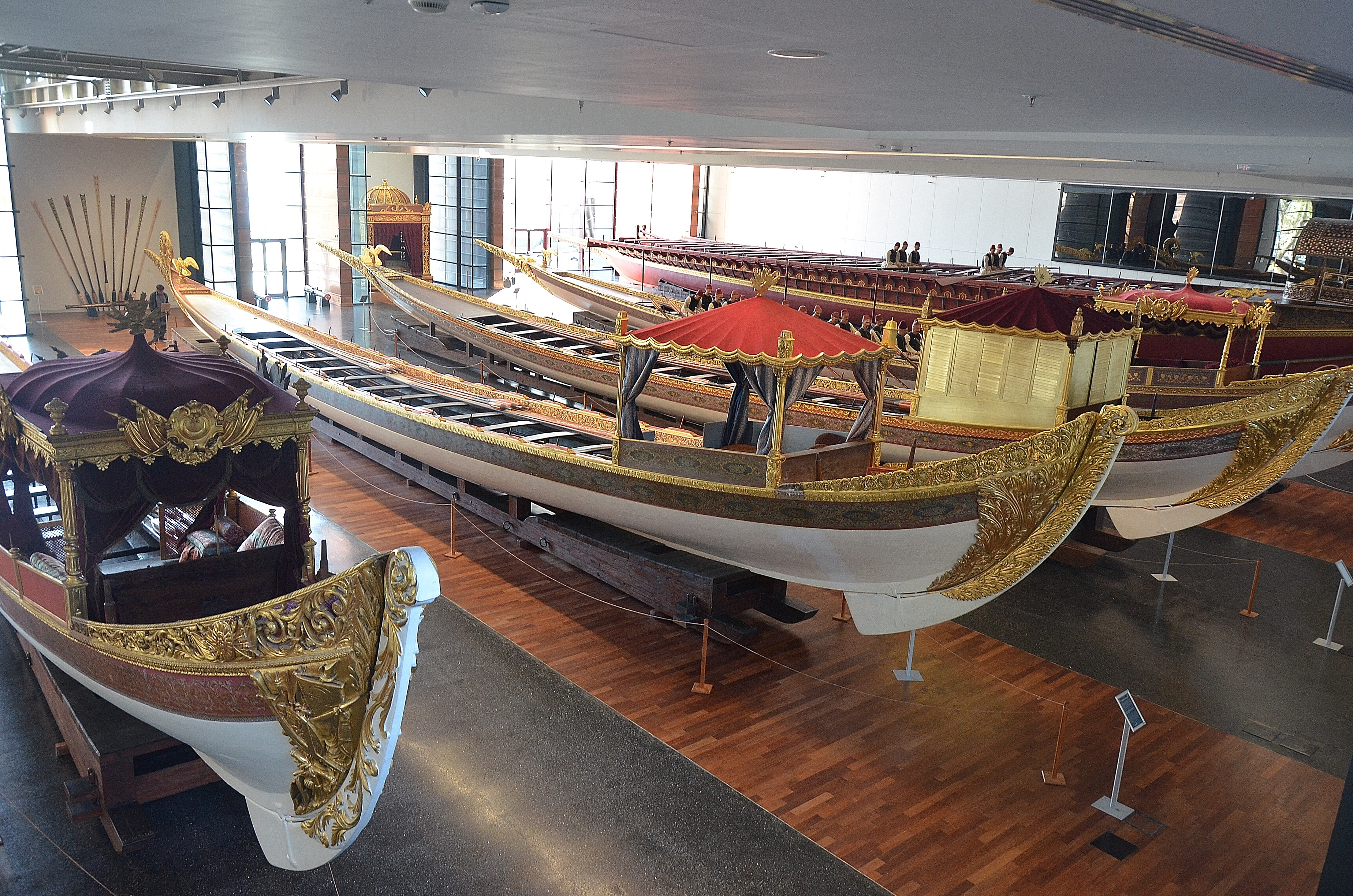 Imperial caïque in the Istanbul Naval Museum